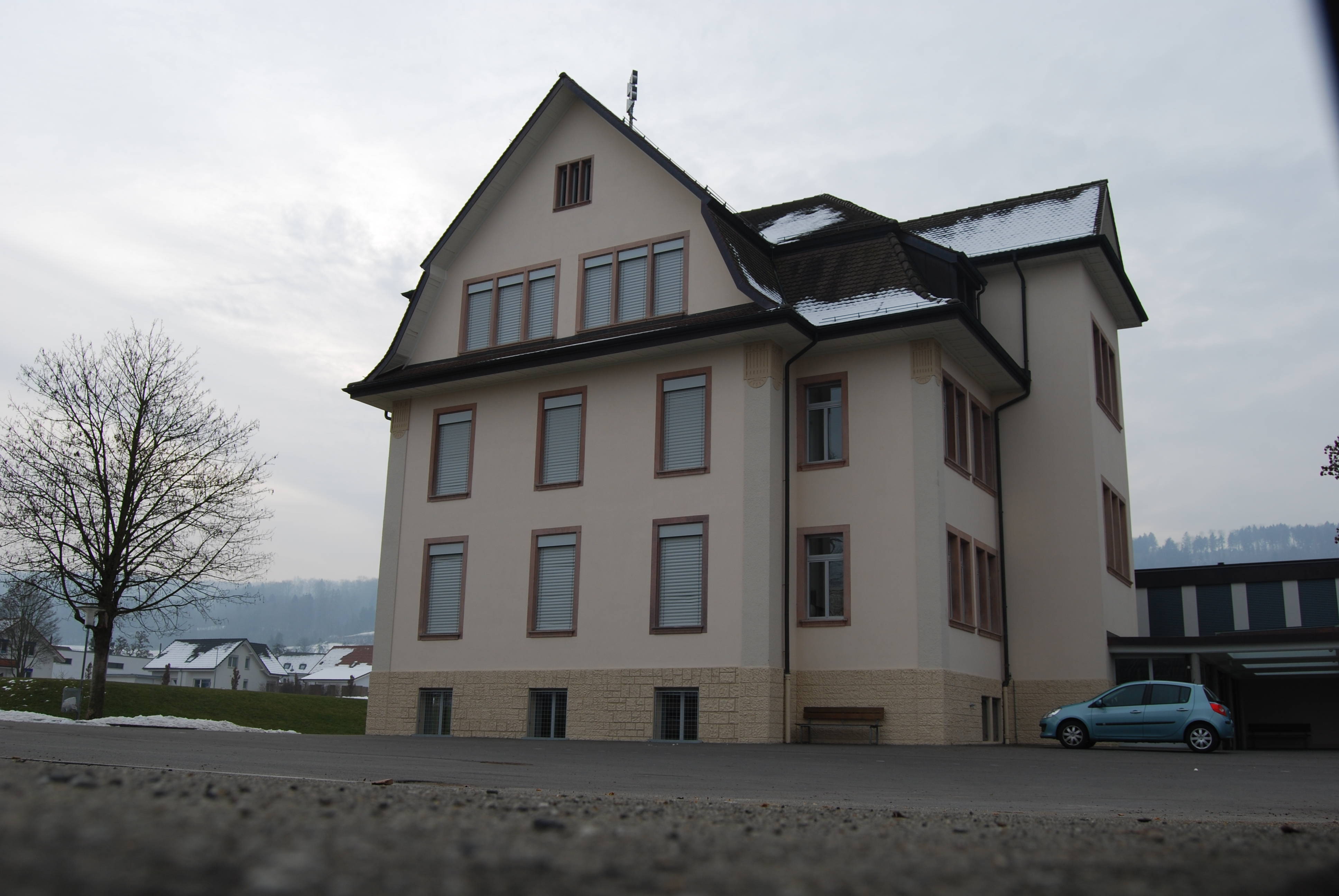 School at Dintikon, canton of Aargau, SwitzerlandEsperanto: Lernejo en Dintikon, Kantono Argovio, Svislando